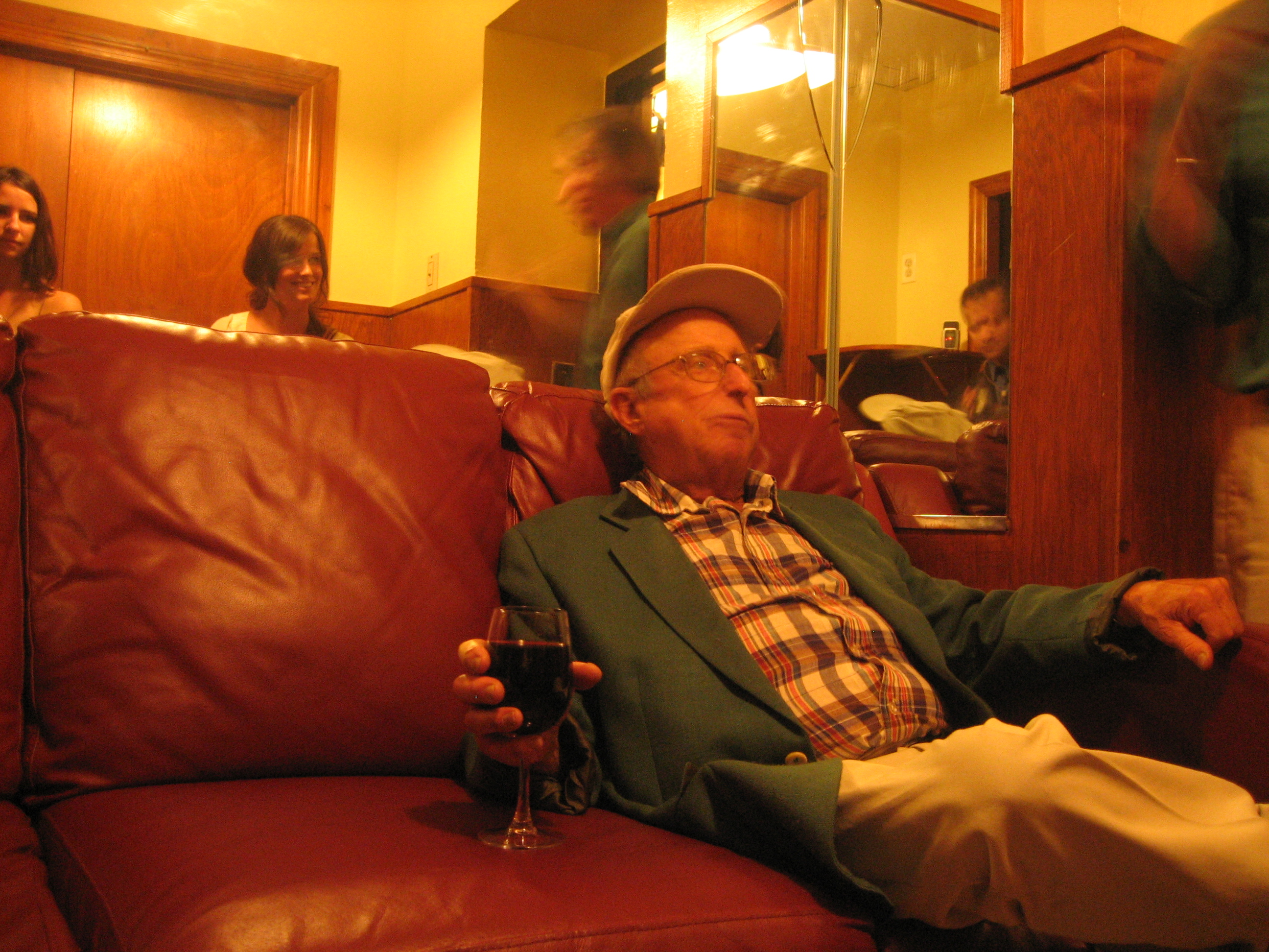 Teddy Charles at Iridium Jazz Club in New York